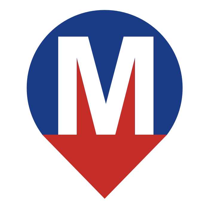 Logo of the Ho Chi Minh City Metro (MRT)